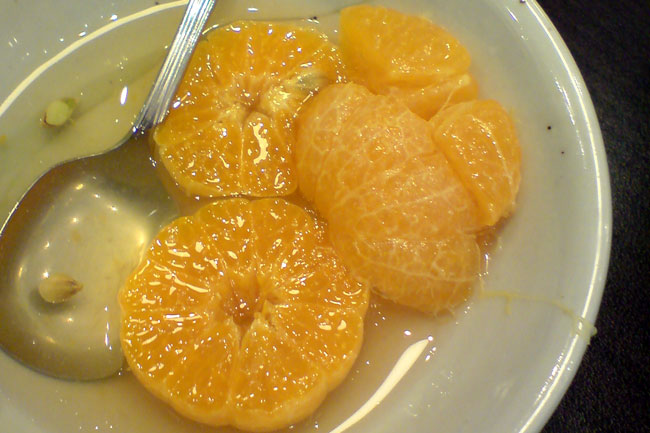 Milgam hwachae, Mandarin oranges punch in Korean cuisine